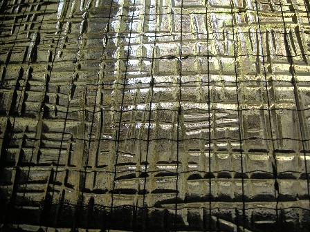 Architecture, Domestic glass, moulded glass.